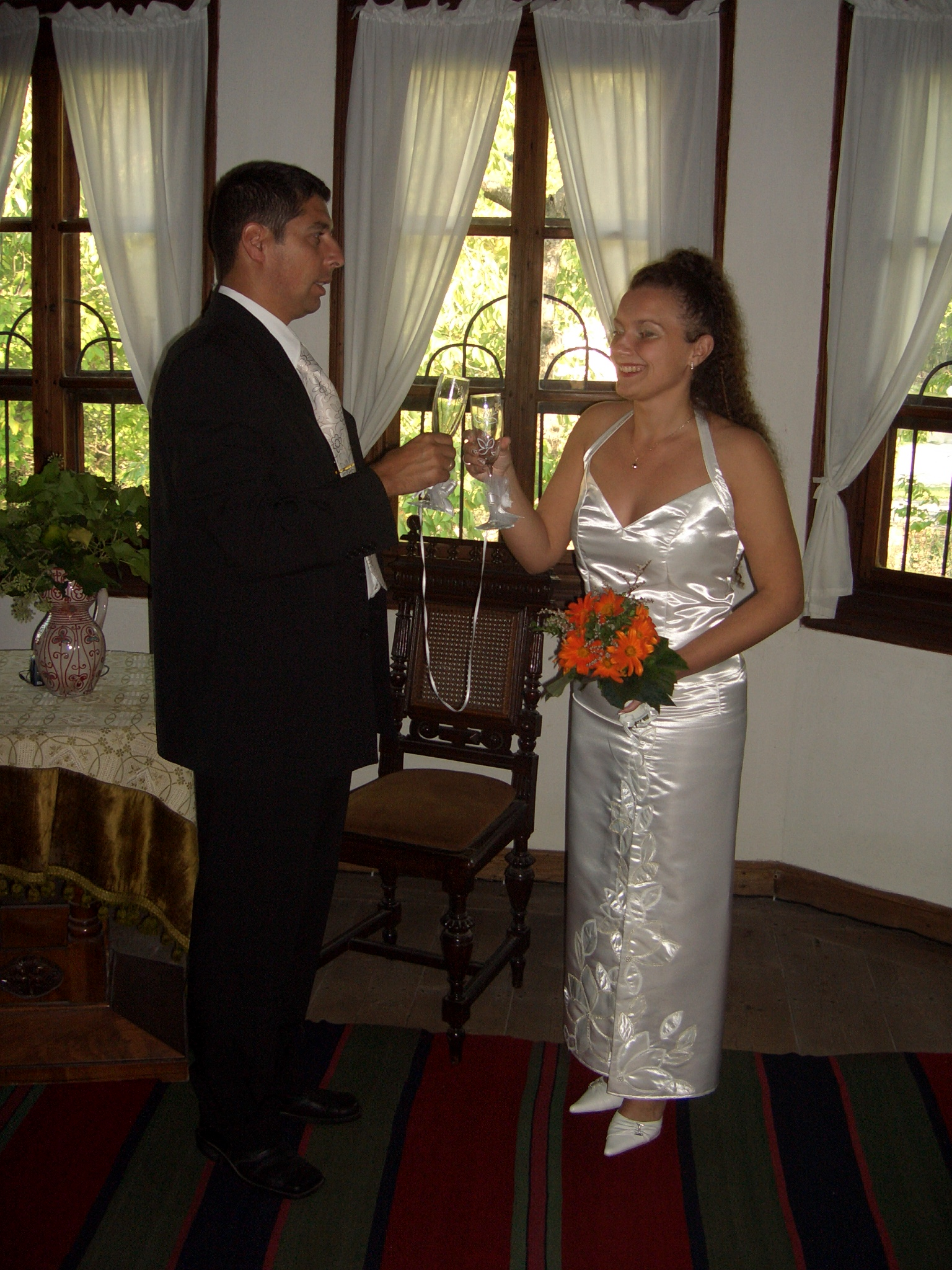 Wedding in Daskalov House